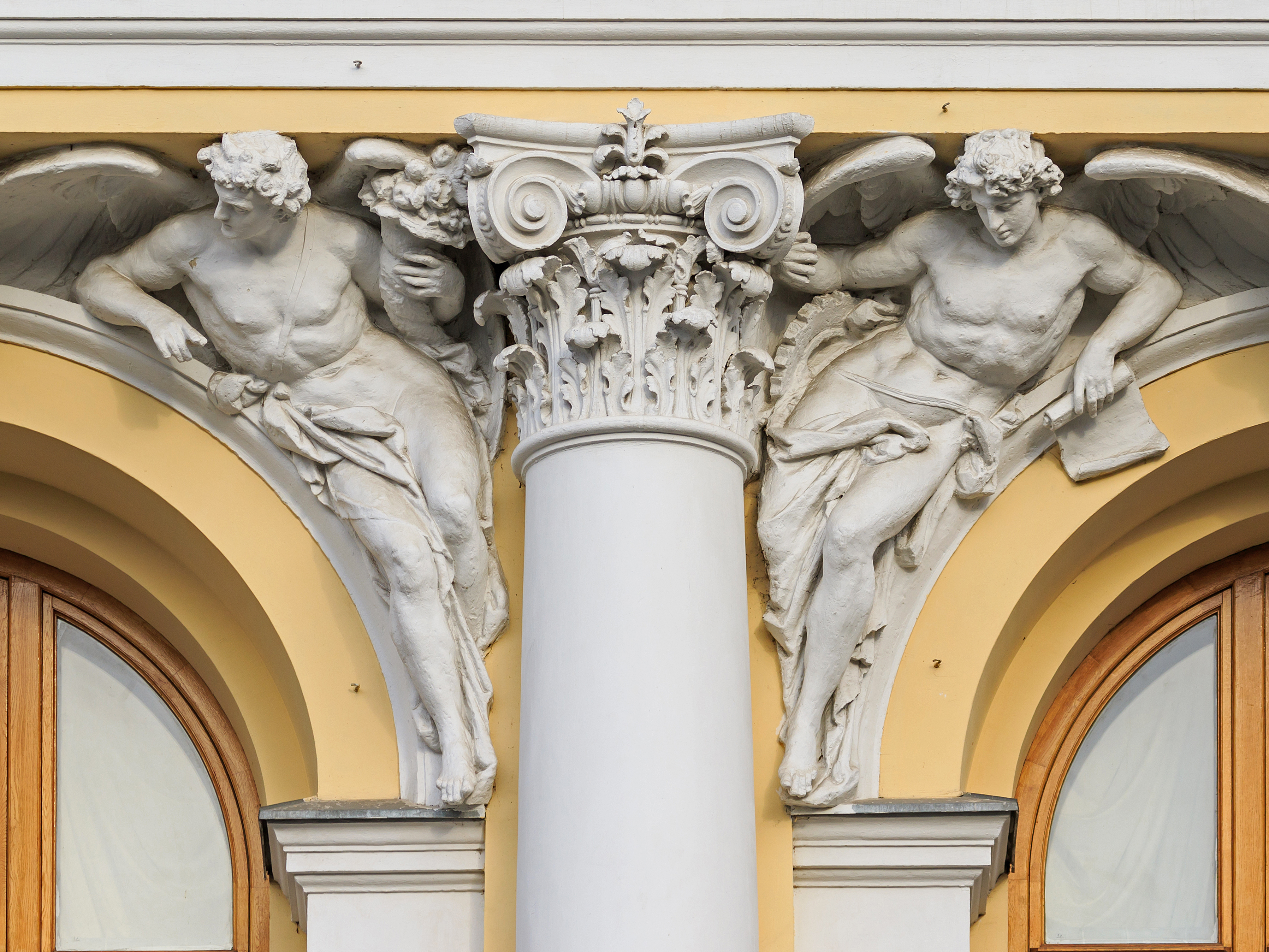 Building at 12, Neglinnaya Street (Central Bank of Russia, main office). Moscow, Russia.